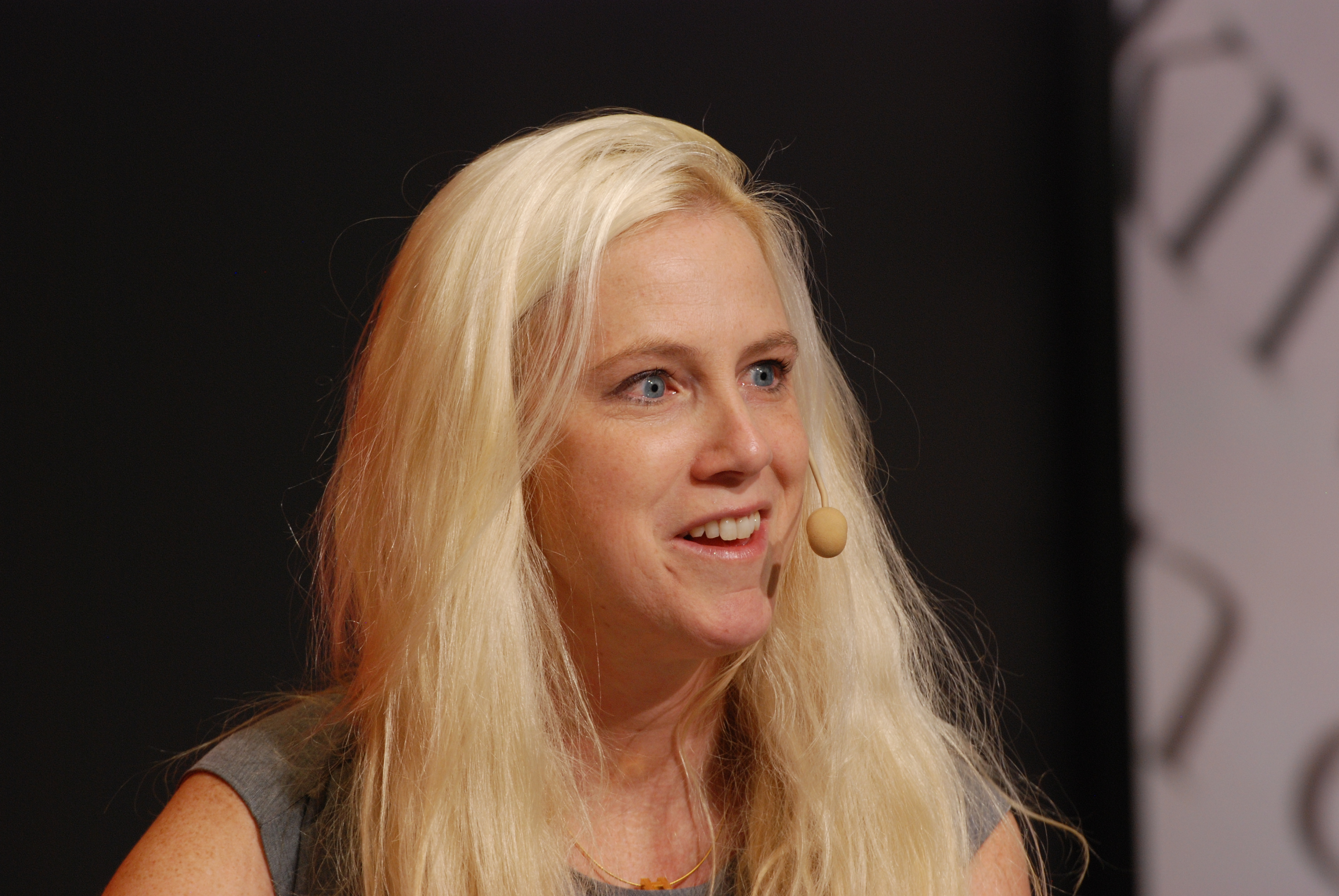 The Swedish journalist Frida Boisen at Göteborg Book Fair 2013.